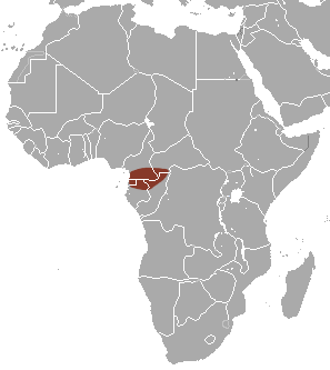 Grasse's Shrew (Crocidura grassei) range